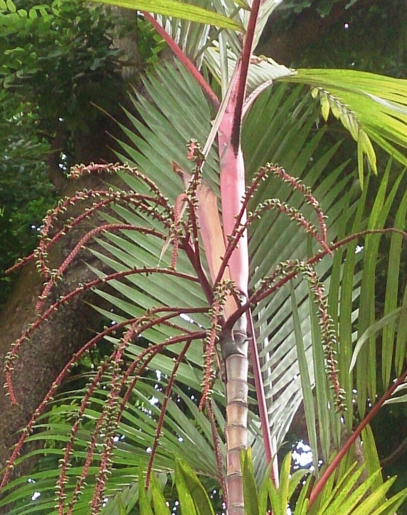 Cyrtostachys renda. Showing fruits